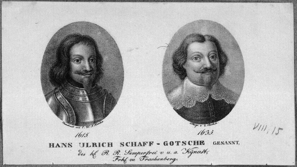 The german imperial General Hans Ulrich von Schaffgotsch (1595-1635)